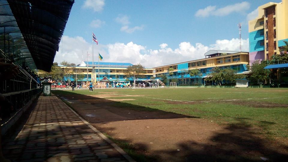 Samutprakan school